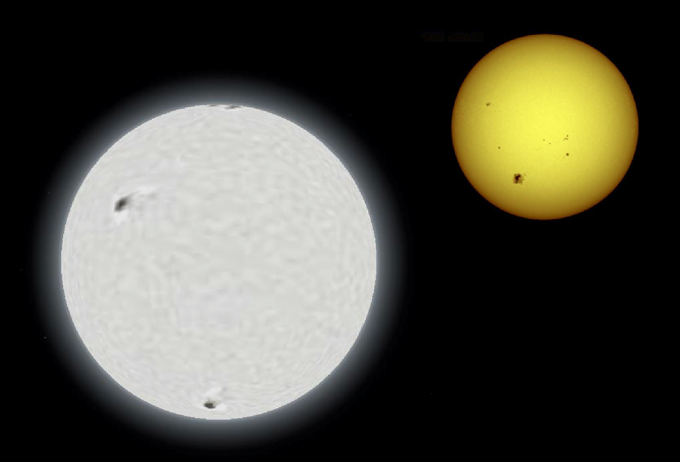 Sirius A and Sun in scale.